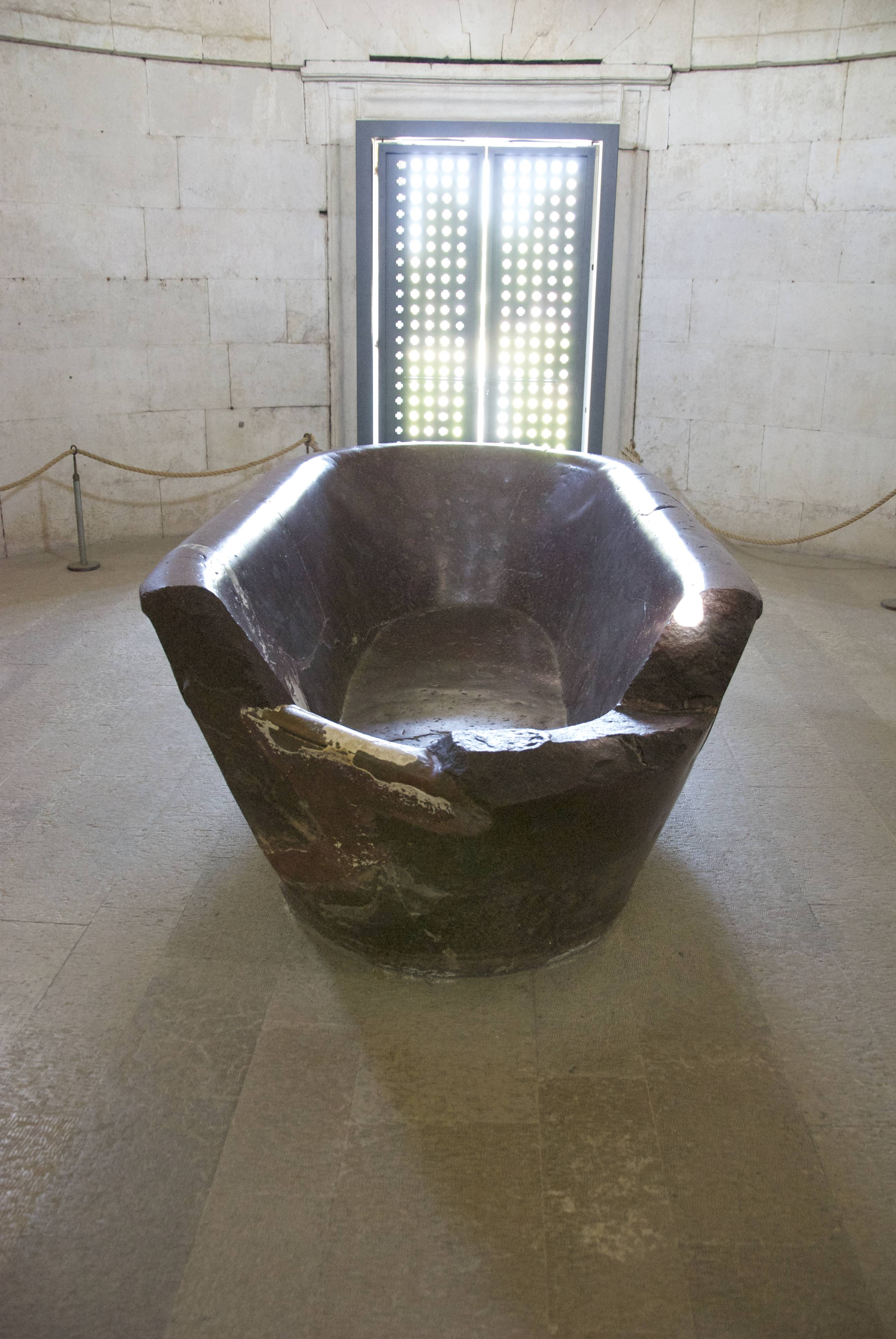 The porphyry labrum (vessel or basin with an overhanging lip), possibily from a Roman thermal building, which is said to heve been reused in 526 AD as sarcophagus for king Theodoric in Ravenna, Italy. The manufact was subsequently reused after 540 AD by the new rulers, the Byzantines, in the facade of the so-called "Palace of Theodoric" in Ravenna, whence it was moved in 1913 to the Mausoleum of Theoderic in Ravenna, where it stands today.